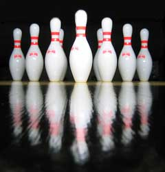 Bowling Pins